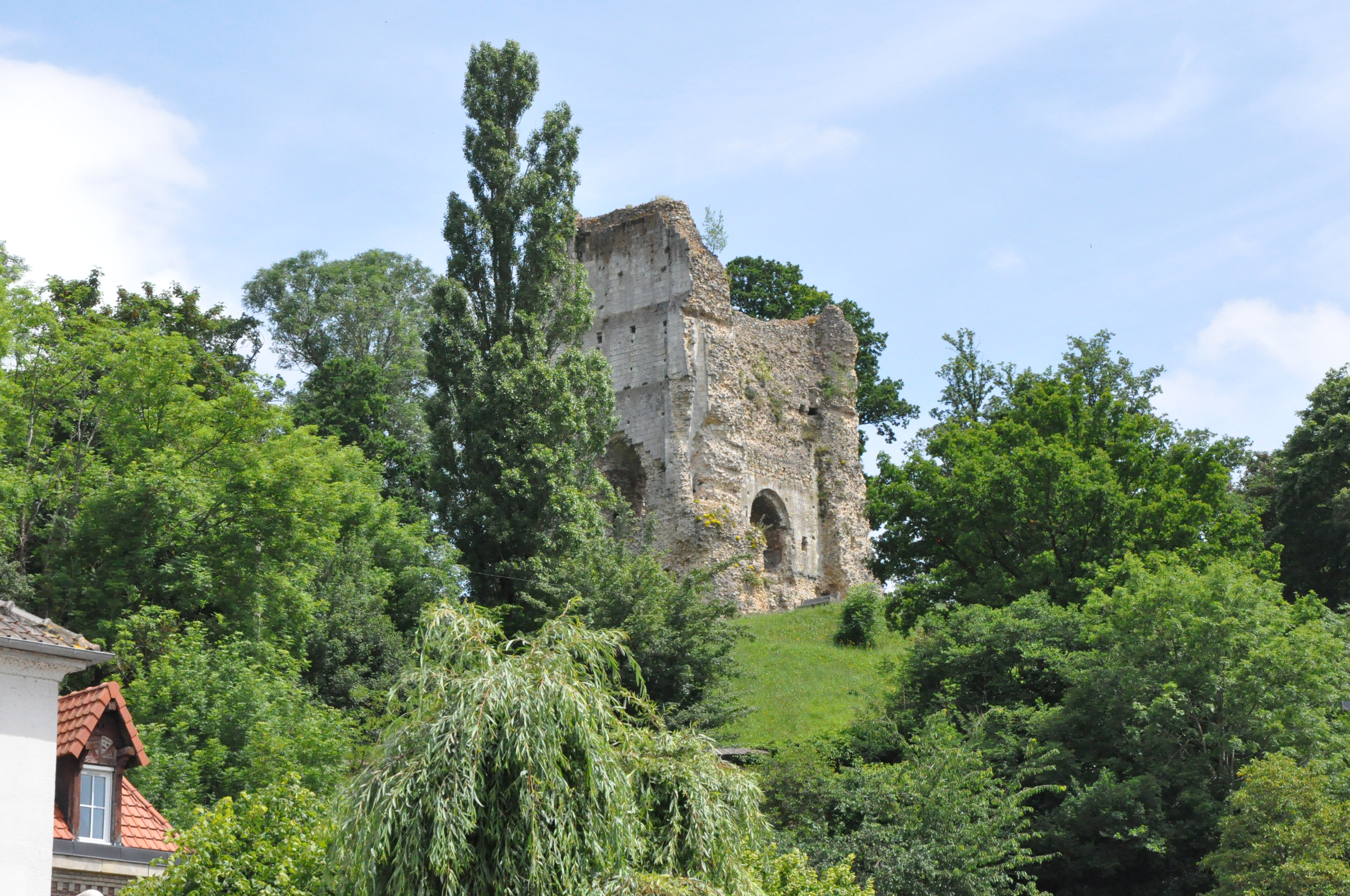 Keep of Brionne (France, Normandy)